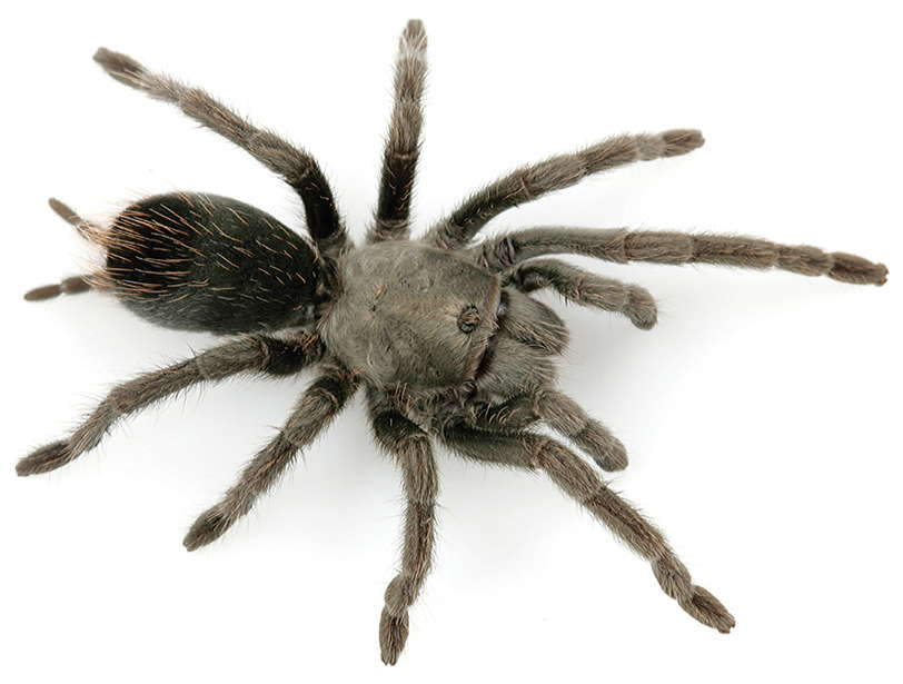 Aphonopelma saguaro female